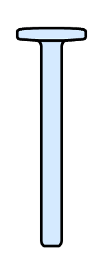 scheme of Willstätter's nail made in Macromedia Flash 5